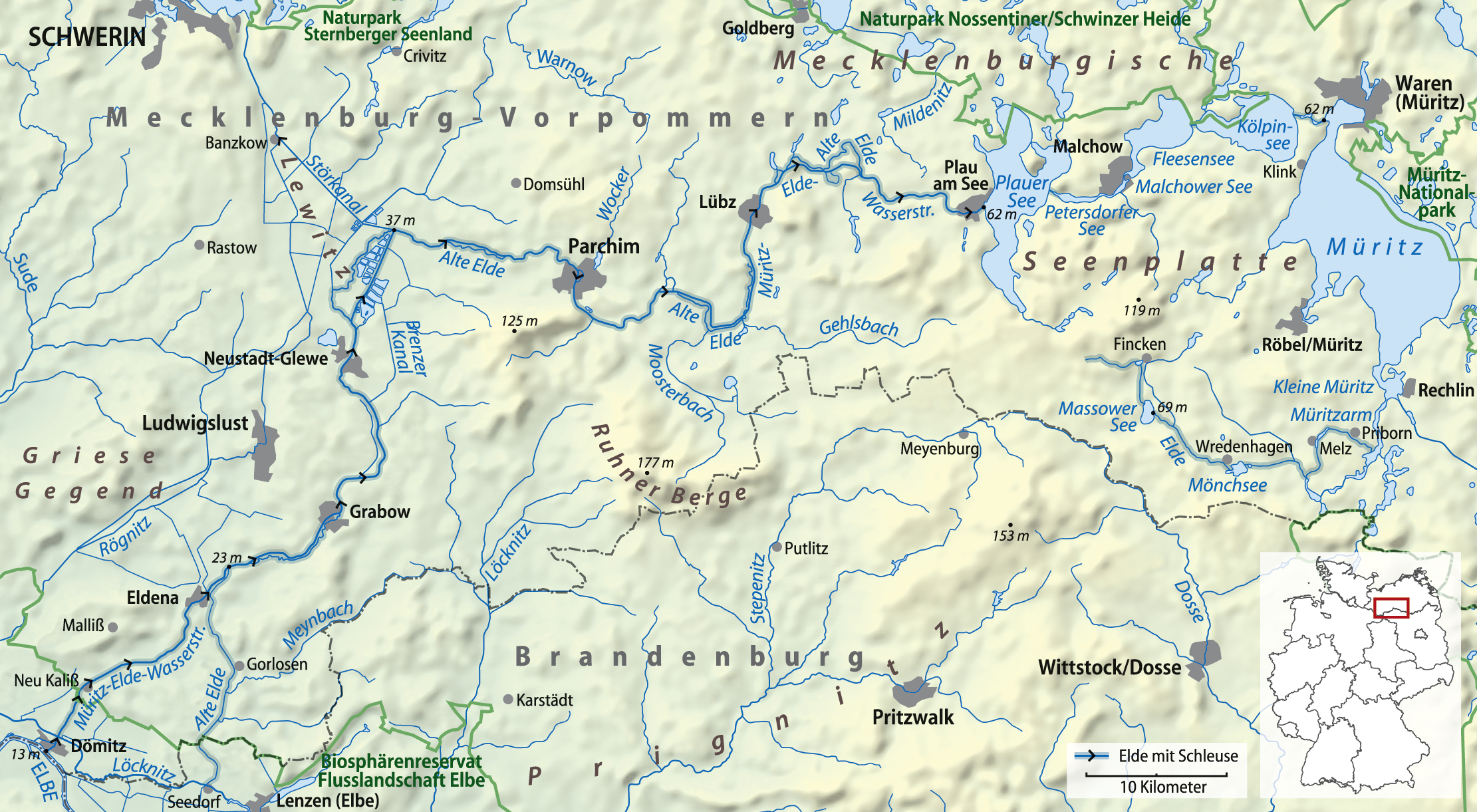 Map of the Elde